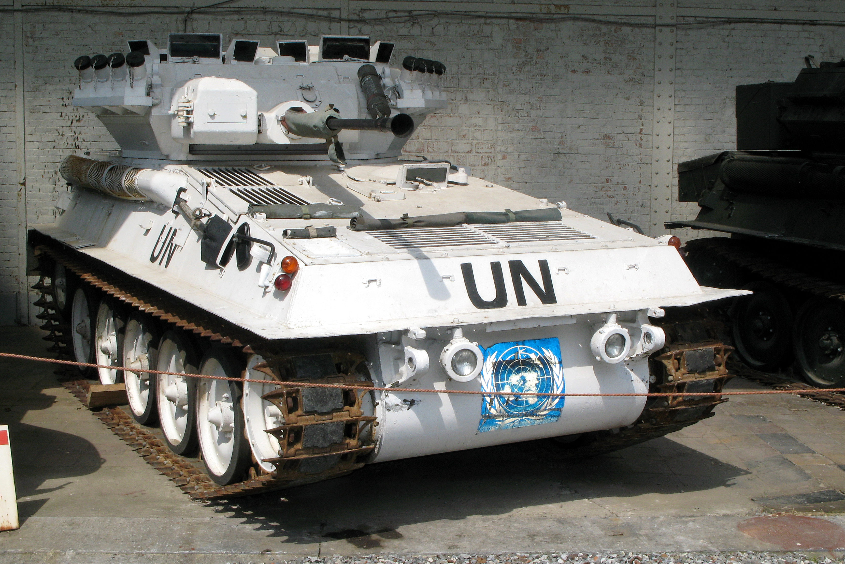 United Nations FV107 Scimitar